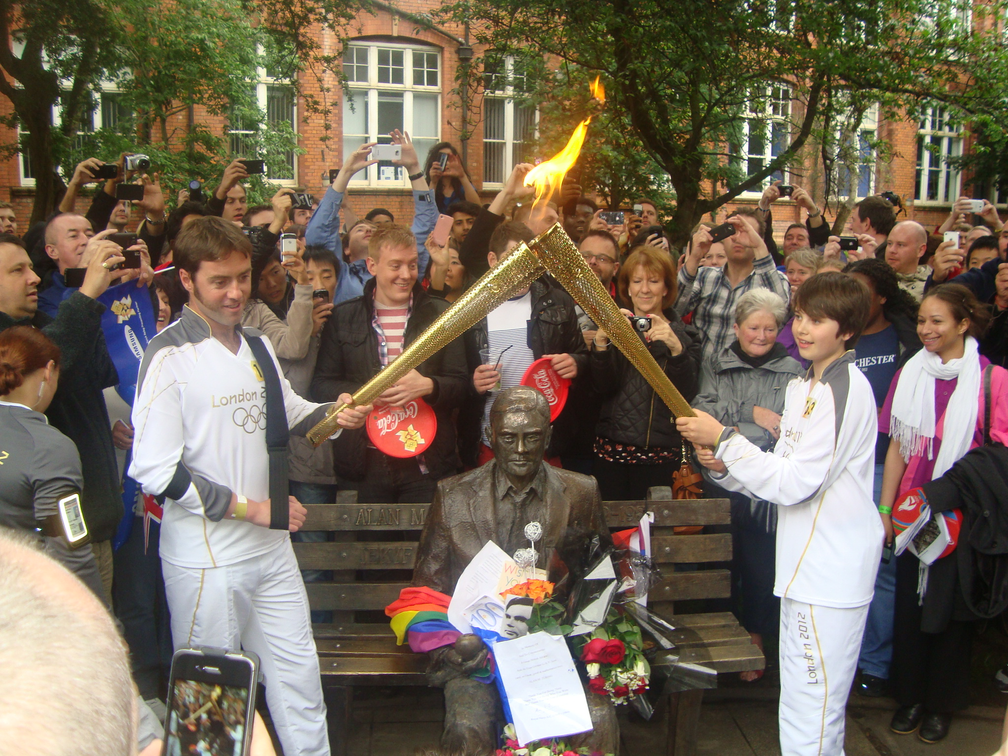 The Olympic Torch arrives in Manchester's Sackville Gardens on Alan Turing's 100th birthday